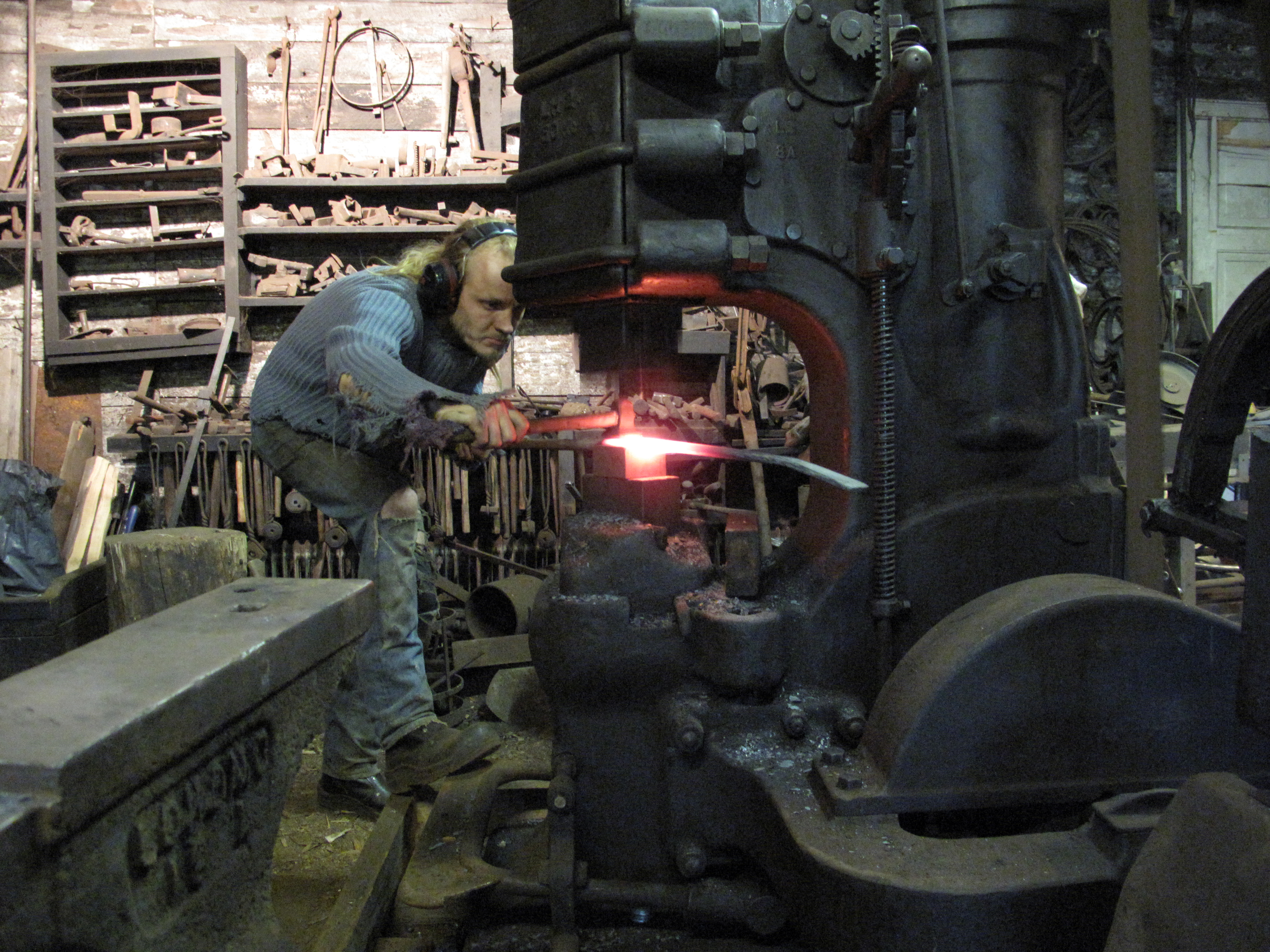 A typical smithy in Finland. Shot during a tourist trip to artist blacksmith Jesse Sipola's smithy next to lake Bodom. Blacksmith is using power hammer to aid in forging.